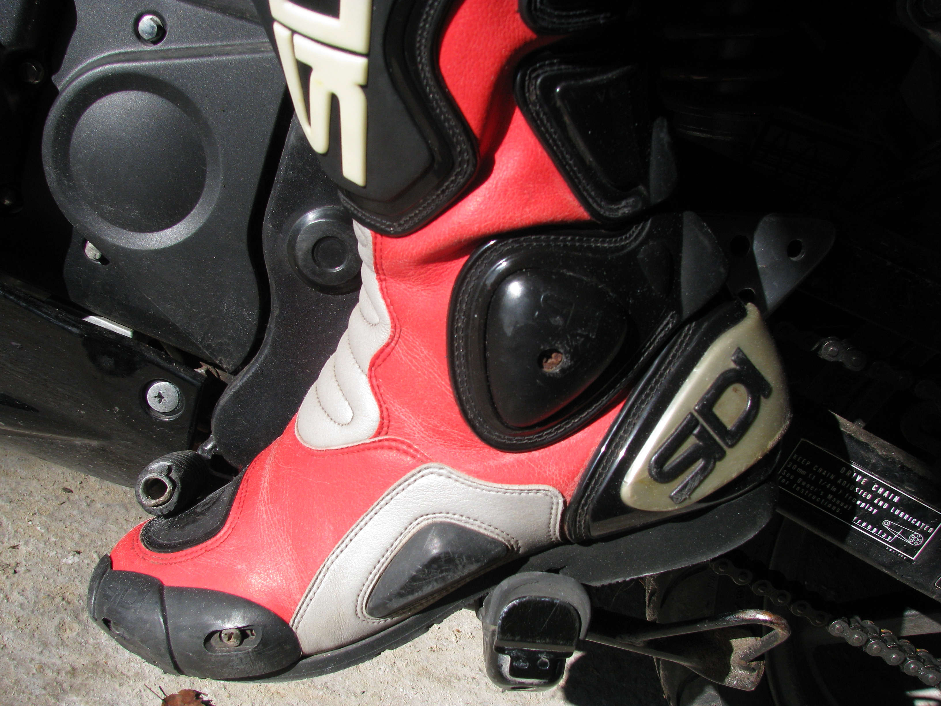 A red SIDI Vertebra motorcycle racing boot. The plastic armour on the toe, instep, ankle, heel and shin help protect the rider from injury. The low heel of the boot grips the foot-rest while the toe lifts the gear-shift lever to change up a gear.